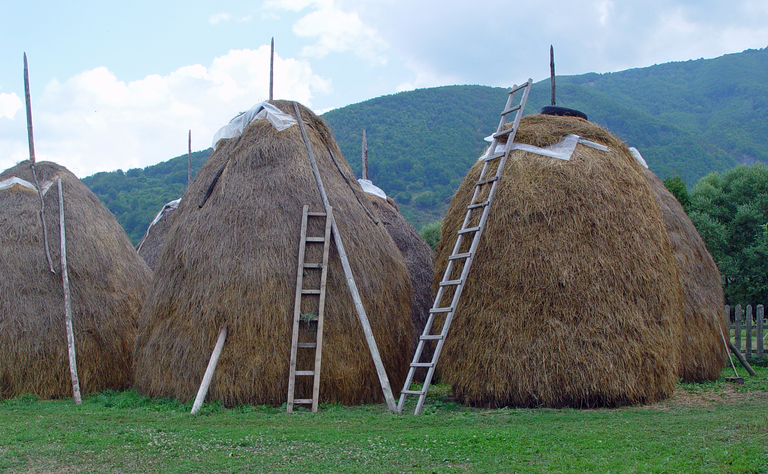 Stacked hay in Gusinje (Montenegro)